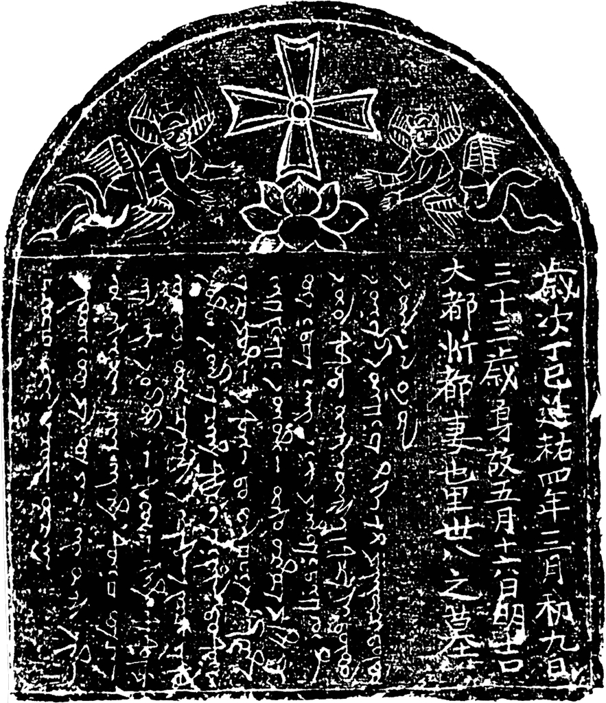 A Nestorian headstone rubbing, the original headstone belongs to a Nestorian christian named Elisabeth. Found at Yangchow in 1981, currently in the Yangchow Museum. 1317 A.D., Yüen dynasty (1271–1368). The Chinese inscription reads: "歲次丁巳延祐四年三月初九日三十三歲身故，五月十六日明吉大都忻都妻也里世八之墓。" (The tomb of Yelishiba [Elizabeth], wife of Xindu of the Great Capital, who died at the age of 33 in the cyclical year dingsi [fire snake year] on the 9th day of the 3rd month of the 4th year of the Yanyou era [1317], and was buried on an auspicious day on the 16th day of the 5th month.) The Turkish text in Syriac script reads: "In the name of our Lord Jesus Christ. In 1628 according to the counting of the Emperor Alexander, in the year of the snake, in the third month, on the ninth day [20th of May 1317], the wife of the Xindu from Dadu [Beijing], the woman Elizabeth, at the age of 33 accomplished the order of God. Her vitality and her body have settled down in this tomb. Her soul may find home and destination in paradise accompanied by the everlastingly pure women Sarah, Rebecca and Rachel. May she be commemorated for ever. Amen, yes and Amen!"